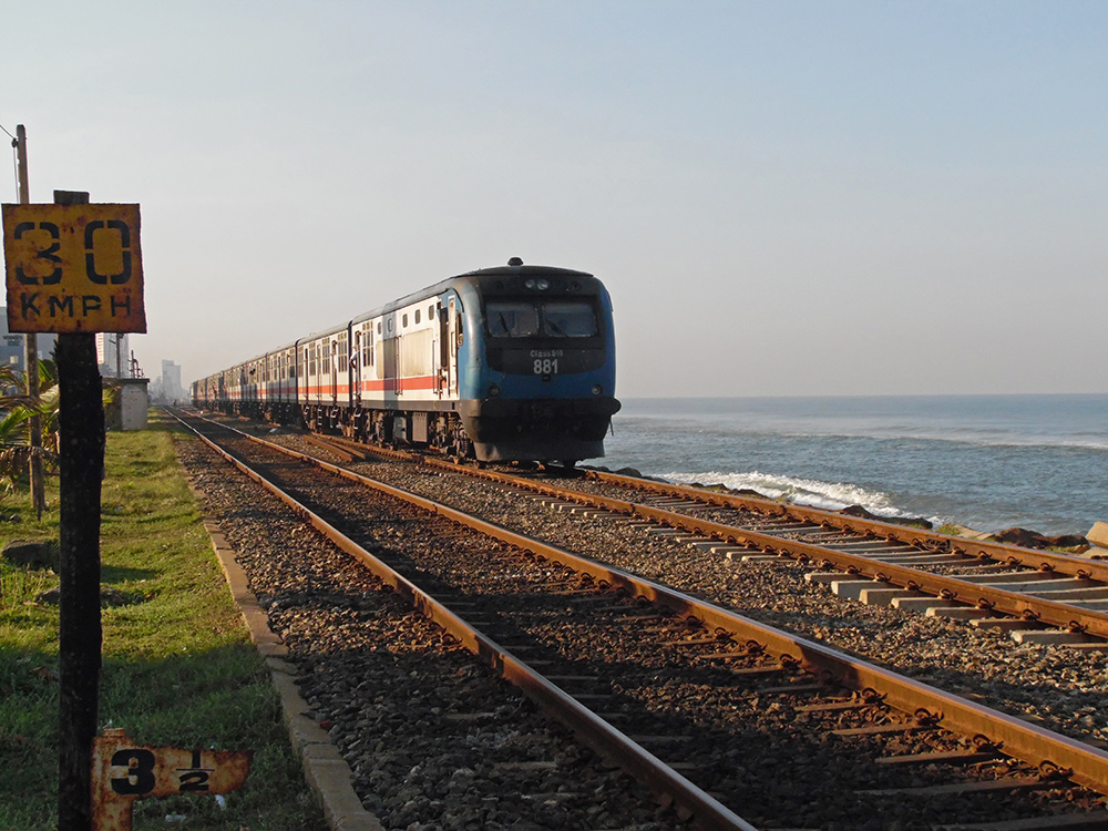 Seaside railway line, Colombo, Sri Lanka. 2015